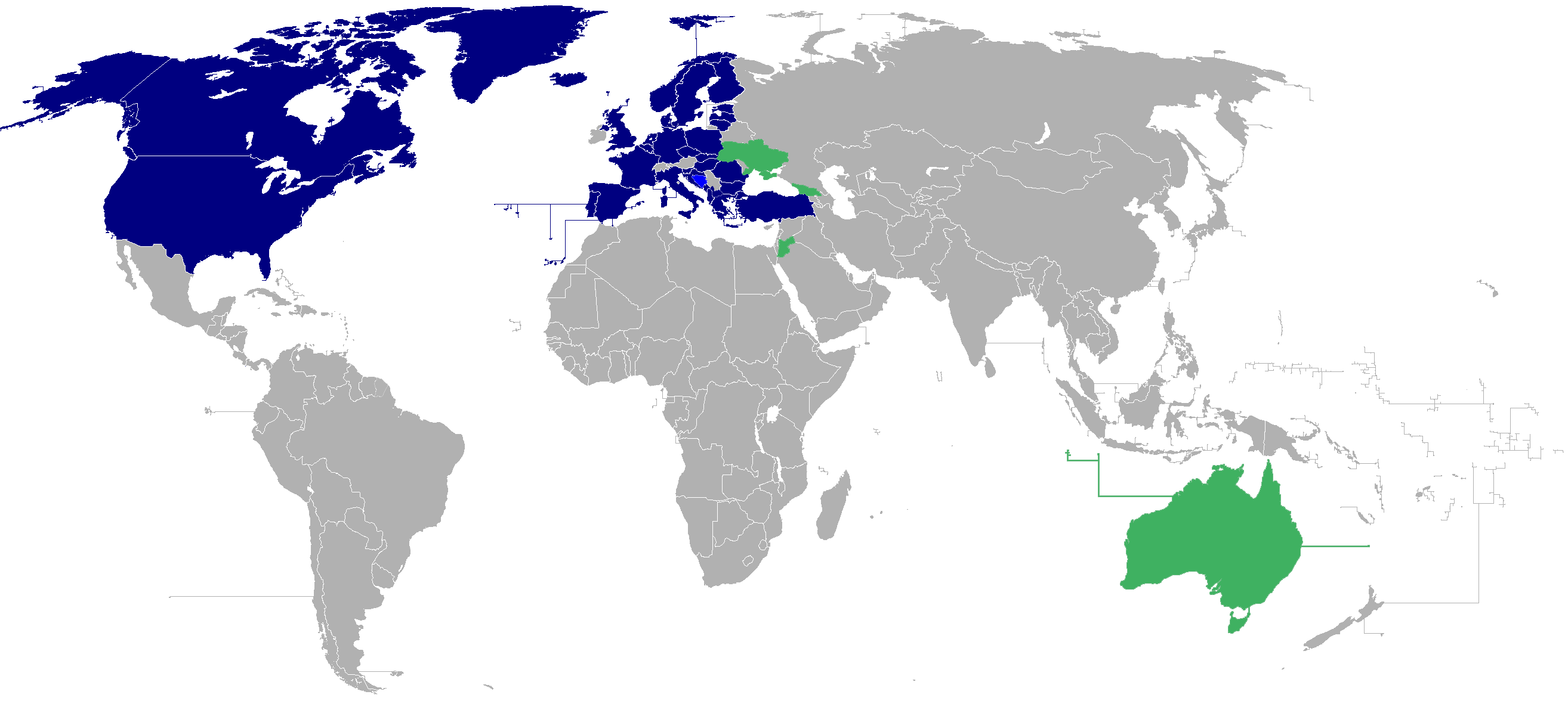 Enhanced Opportunity Partnership This initiative aims at strengthening interoperability between partners and Allies. NATO (in dark blue), Membership Action Plan (in blue), Enhanced Opportunity Partnership countries (in green)